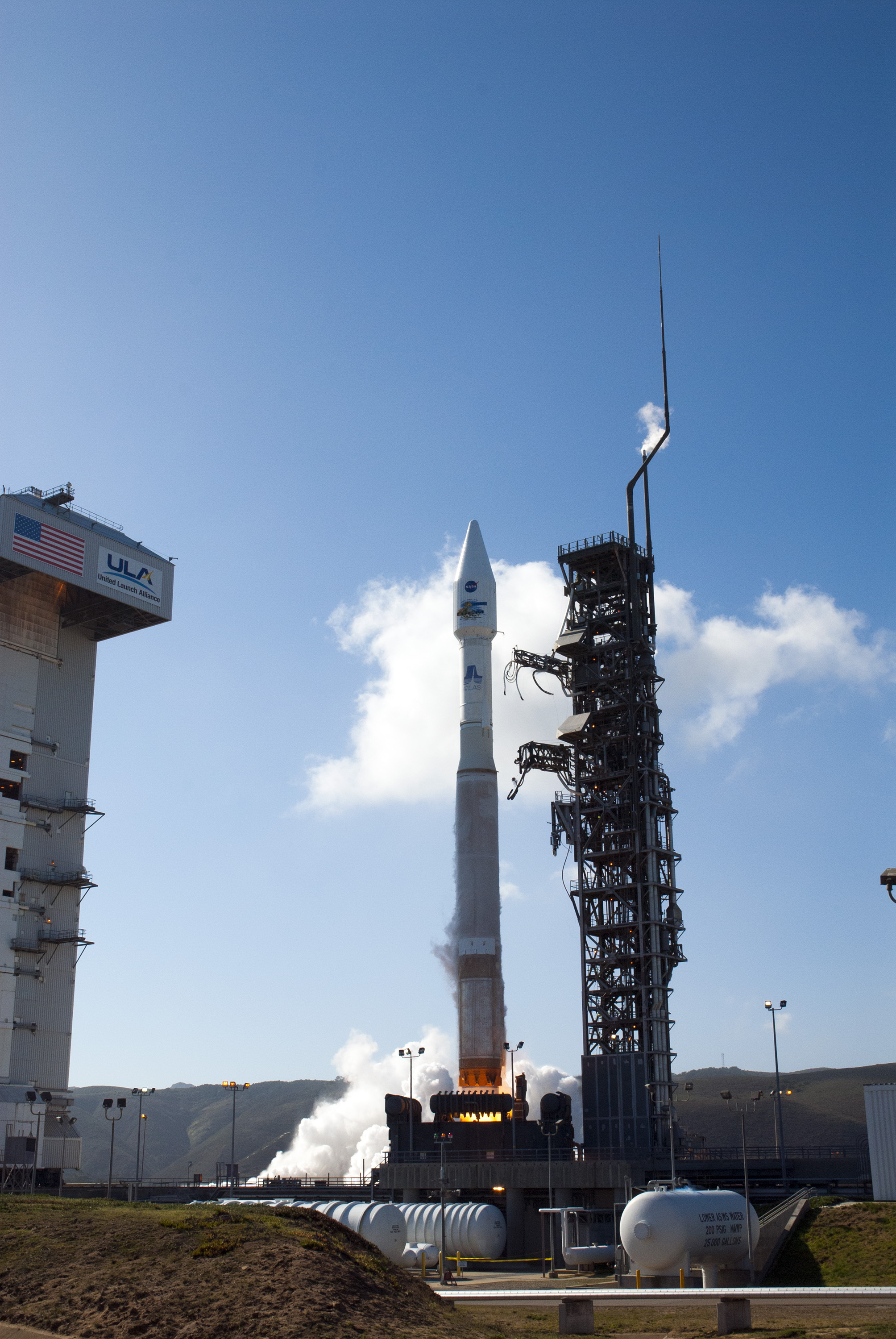 VANDENBERG AFB, Calif. -- The Landsat Data Continuity Mission spacecraft lifts off at 1:02 p.m. EST, 10:02 a.m. PST) atop a United Launch Alliance Atlas V rocket from Space Launch Complex 3 at California's Vandenberg Air Force Base. The Landsat Data Continuity Mission LDCM is the future of Landsat satellites. It will continue to obtain valuable data and imagery to be used in agriculture, education, business, science, and government. The Landsat Program provides repetitive acquisition of high resolution multispectral data of the Earth's surface on a global basis. The data from the Landsat spacecraft constitute the longest record of the Earth's continental surfaces as seen from space. It is a record unmatched in quality, detail, coverage, and value. For more information, visit